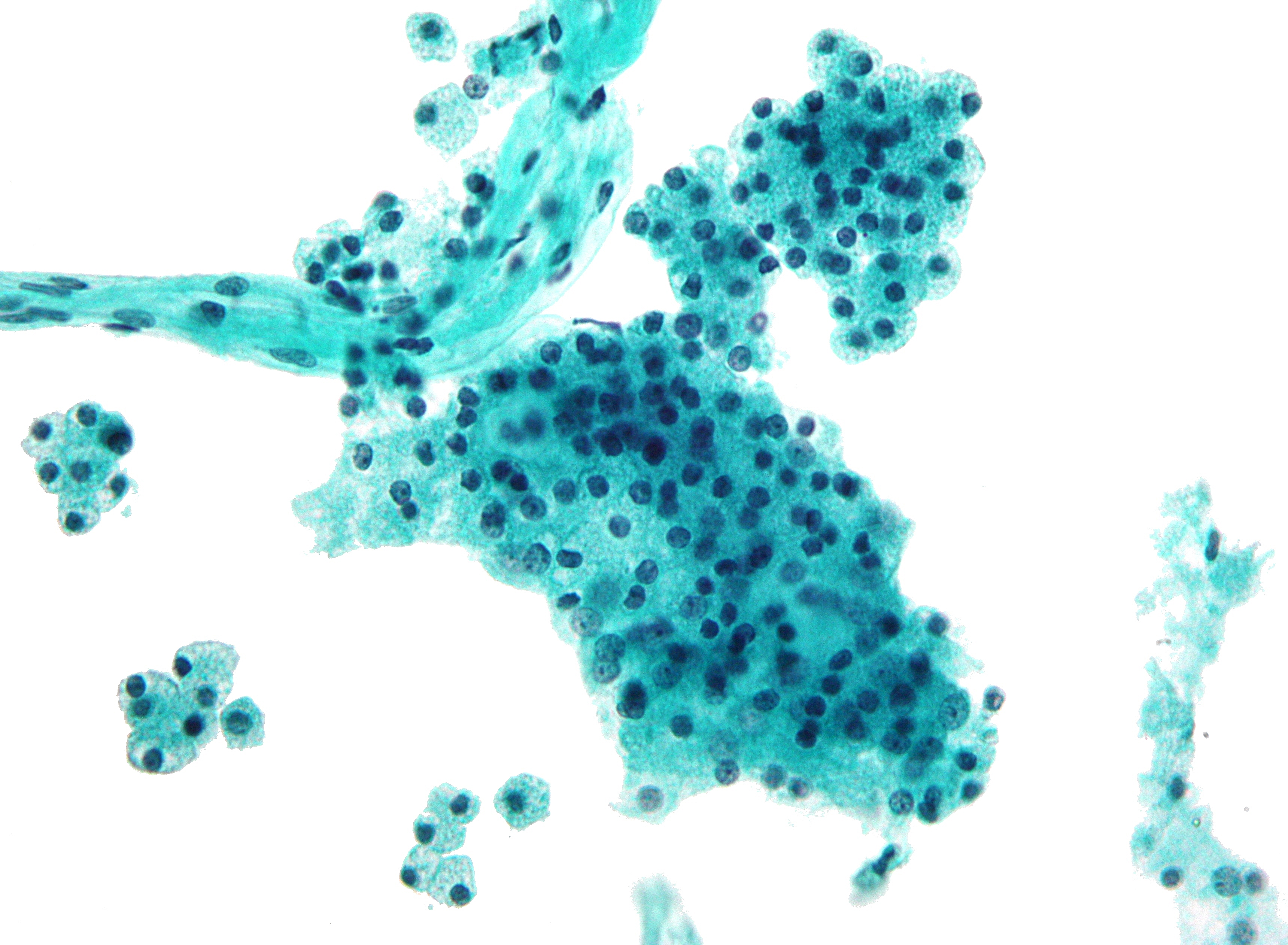 Micrograph of acinic cell carcinoma. Pap stain. Features: Chromatin stippled. Granular cytoplasm. Sheets of cells/acinar formation. Related images Acinic cell carcinoma. Adenoid cystic carcinoma.